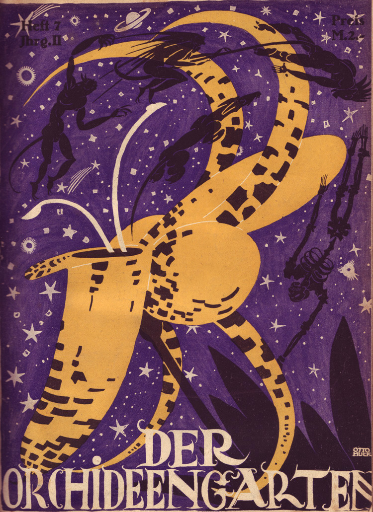 Der Orchideengarten, 1920 cover